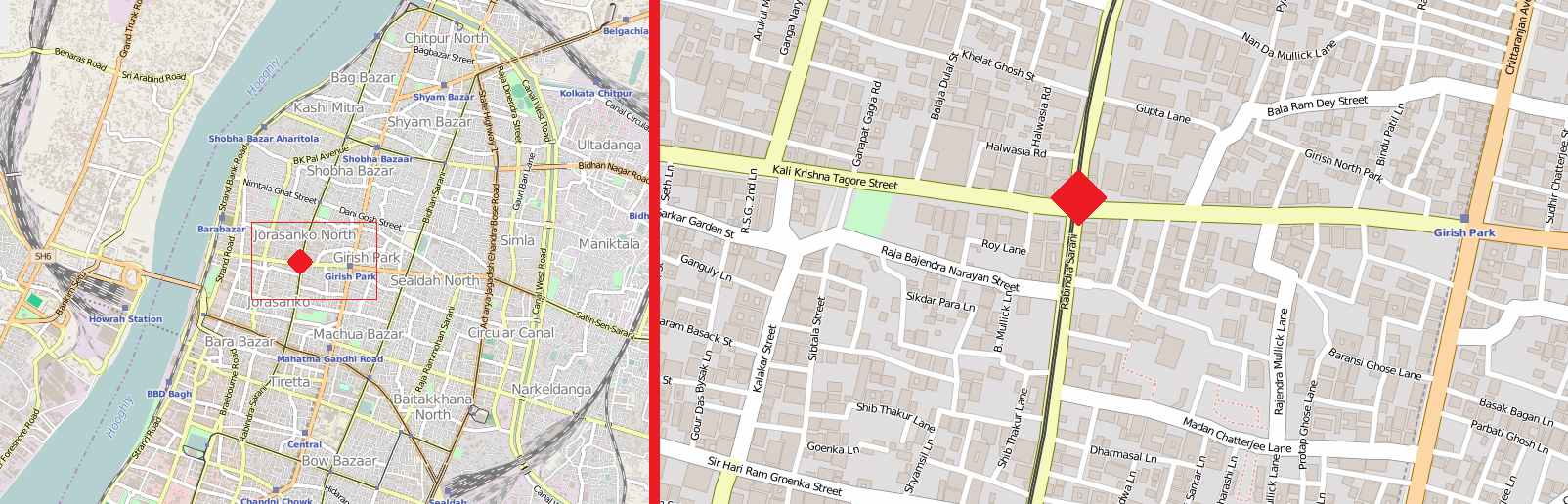 Kolkata overpass collapse location